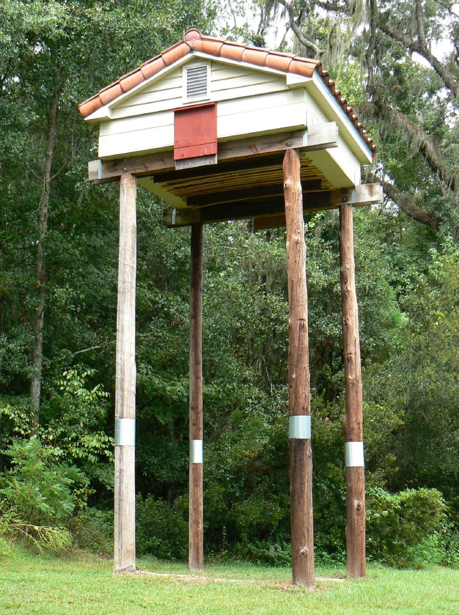 Very large bat-house in Tallahassee FL USA